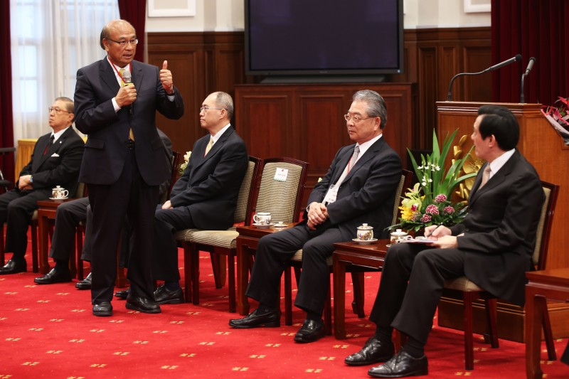 President Ma meets representatives of business groups. (2014/03/31)